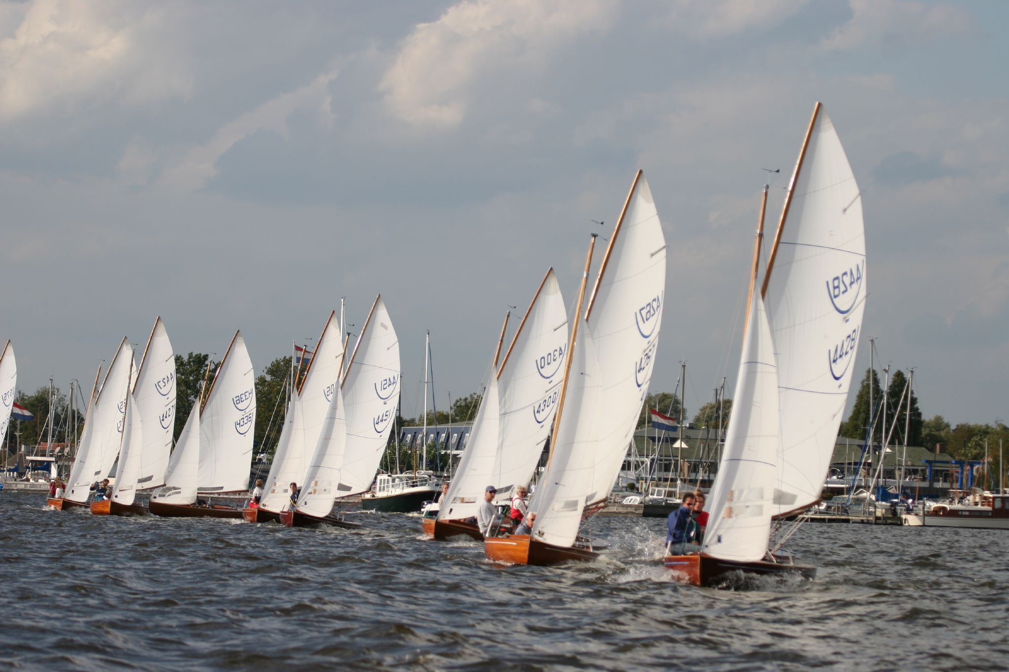 PIP (Primus Inter Pares) sailing race on Loosdrechtse Plassen in 2006